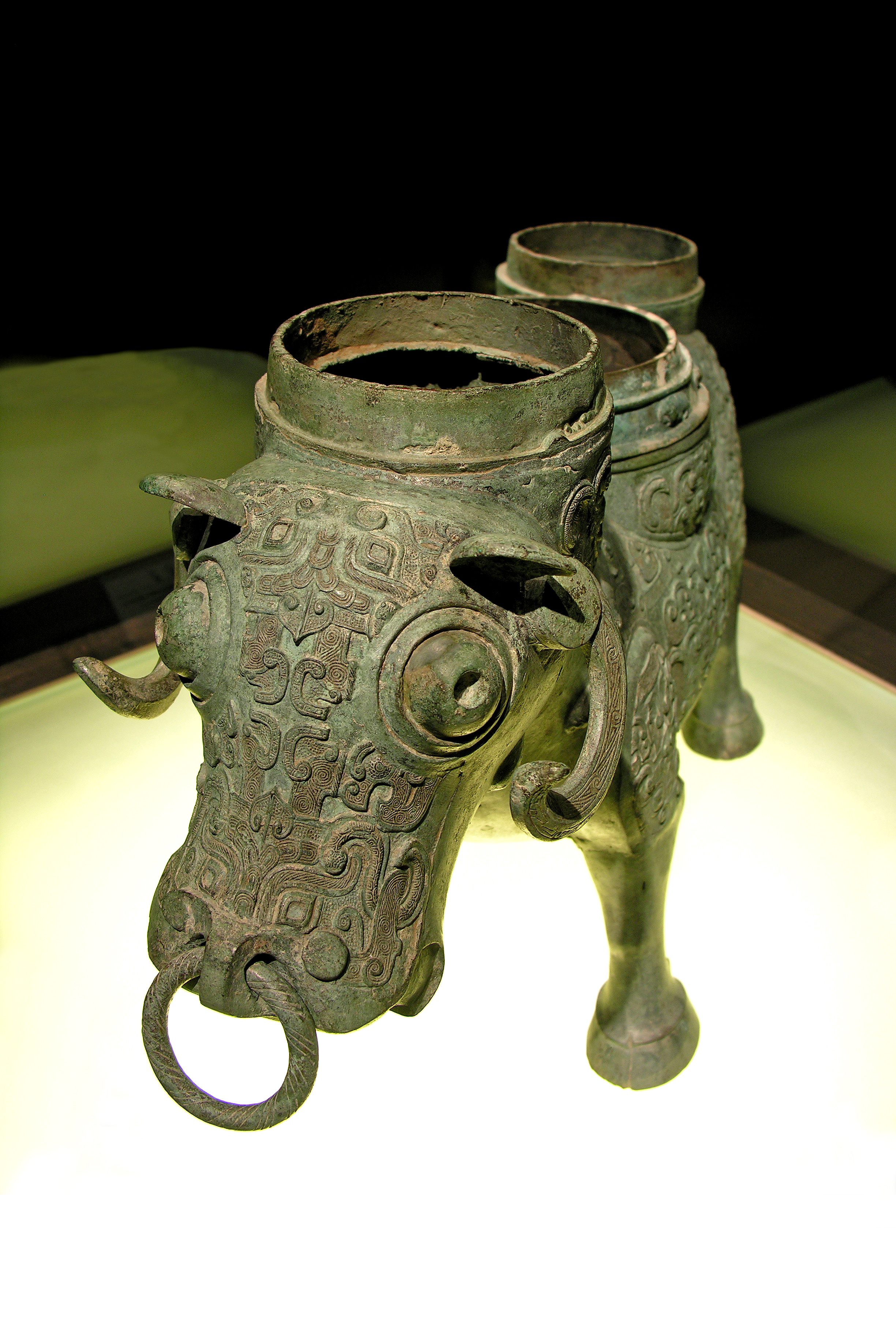 PLEASE, no multi invitations in your comments. DO NOT FEEL YOU HAVE TO COMMENT.Thanks. Not only does it amaze me that the work they could do so far back in time but that they (all civilizations) must have loved to drink wine. I have seen wine holders in so many museums. Ox-shaped Zun (wine vessel) early 6th century – 476 BC